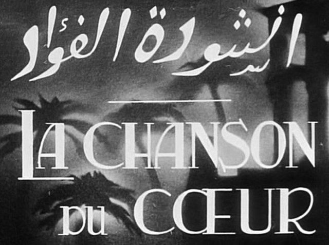 Title frame.